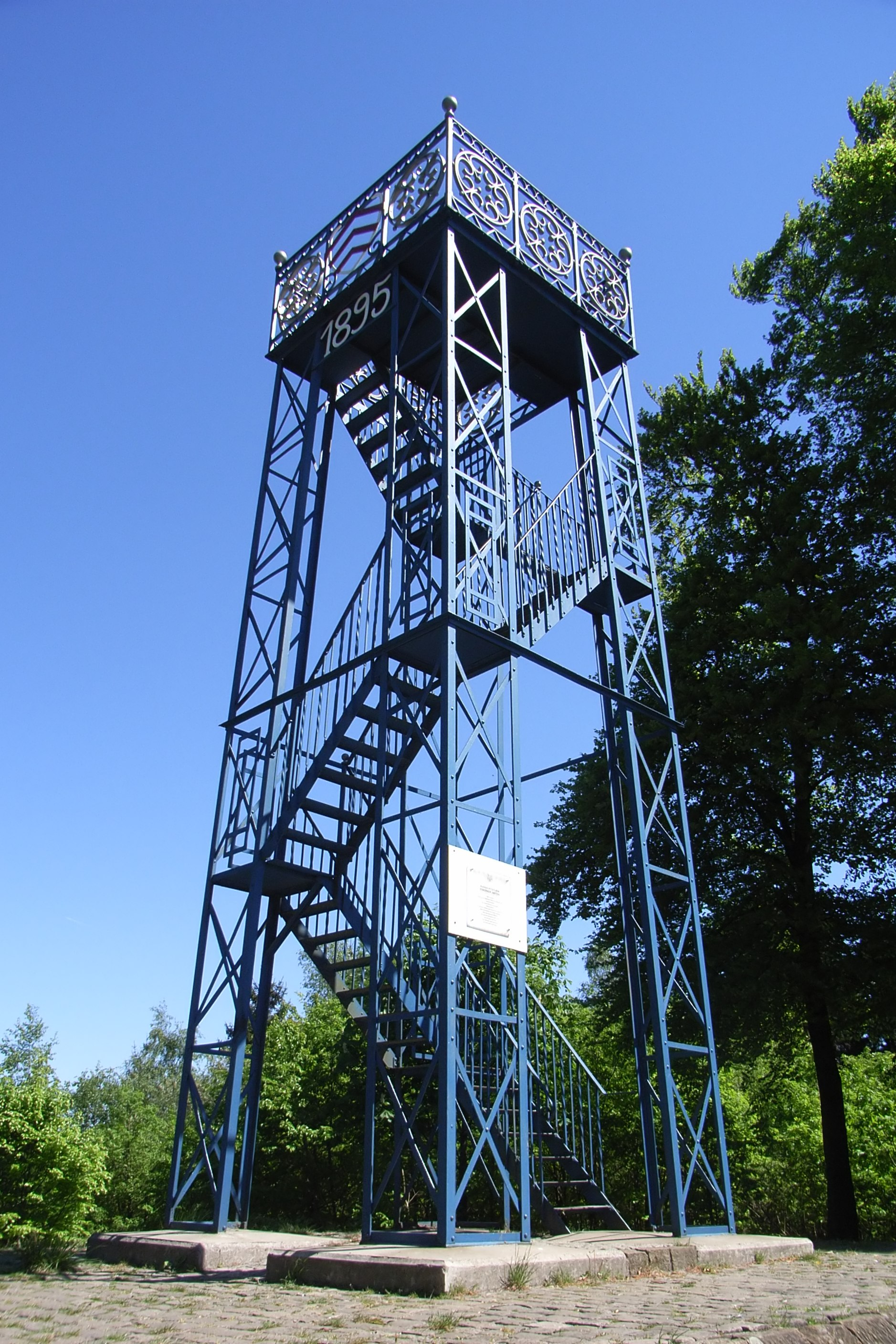 Bielefeld, Germany: Iron Anton watchtower